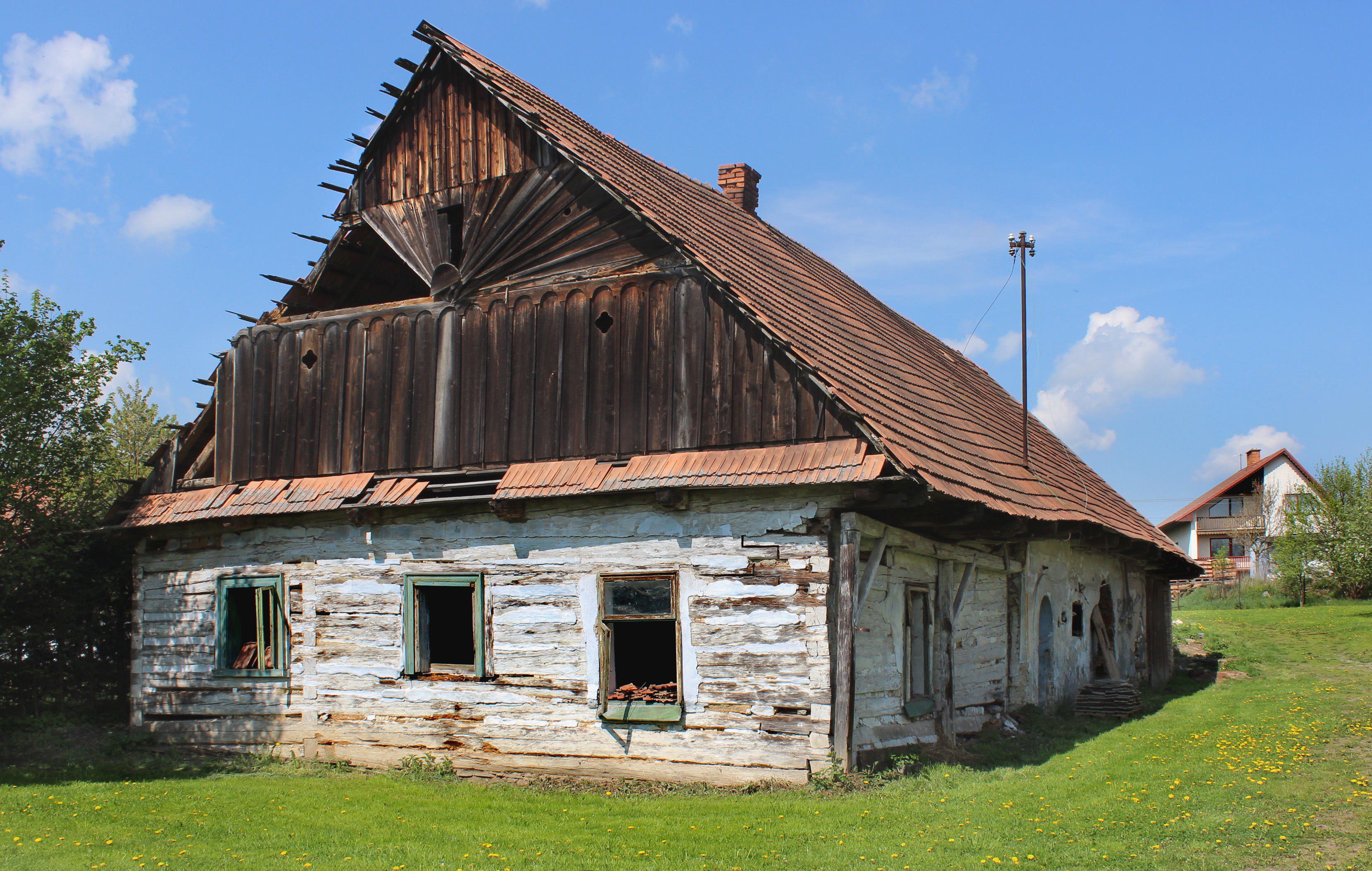 Ruin in Radčice, part of Skuteč town, Czech Republic